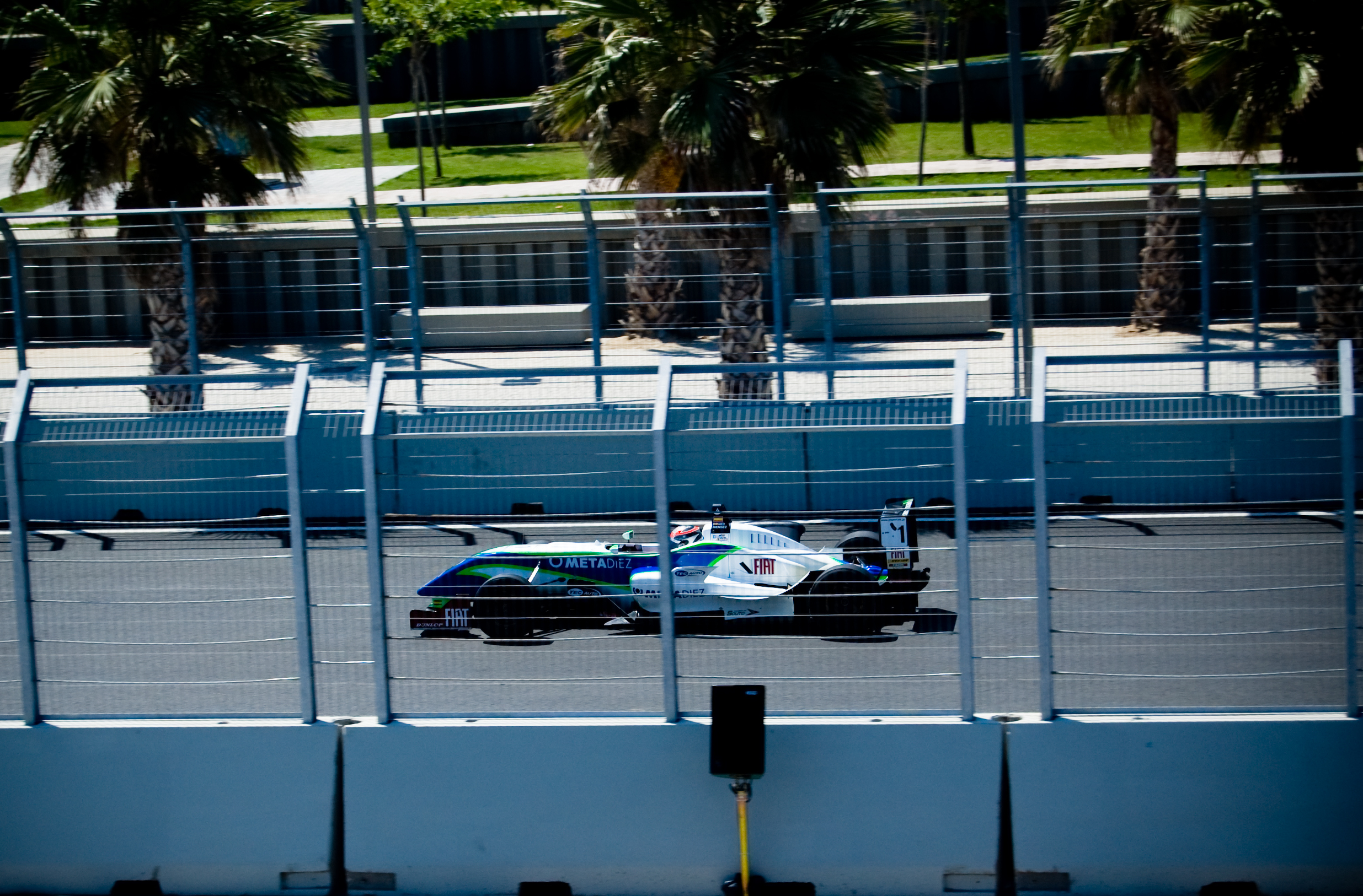 Bruno Méndez (TEC Auto) driving F3 car at the Spanish F3 round in the Valencia street Circuit